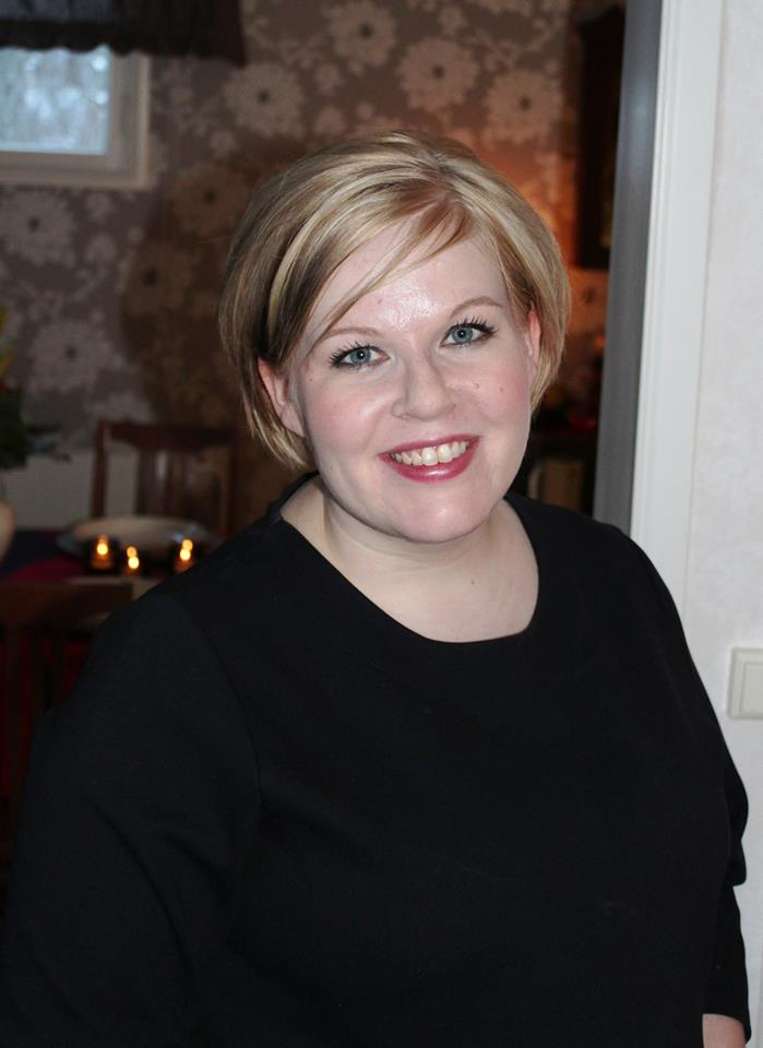 Finnish MP Annika Saarikko in December 2014.